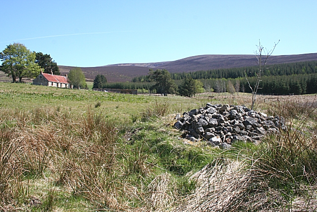 Auchindown's Cairn "A small knoll, partly destroyed in the flood of 1829, called Lord Auchindown's cairn, marks the spot where Sir Patrick Gordon of Auchidown is said to have died after the battle of Glenlivet (NJ22NW 3) in 1594. The cairn is now completely covered by stone clearance so that its original size and shape cannot be ascertained." Information from the Royal Commission on the Ancient and Historical Monuments of Scotland.